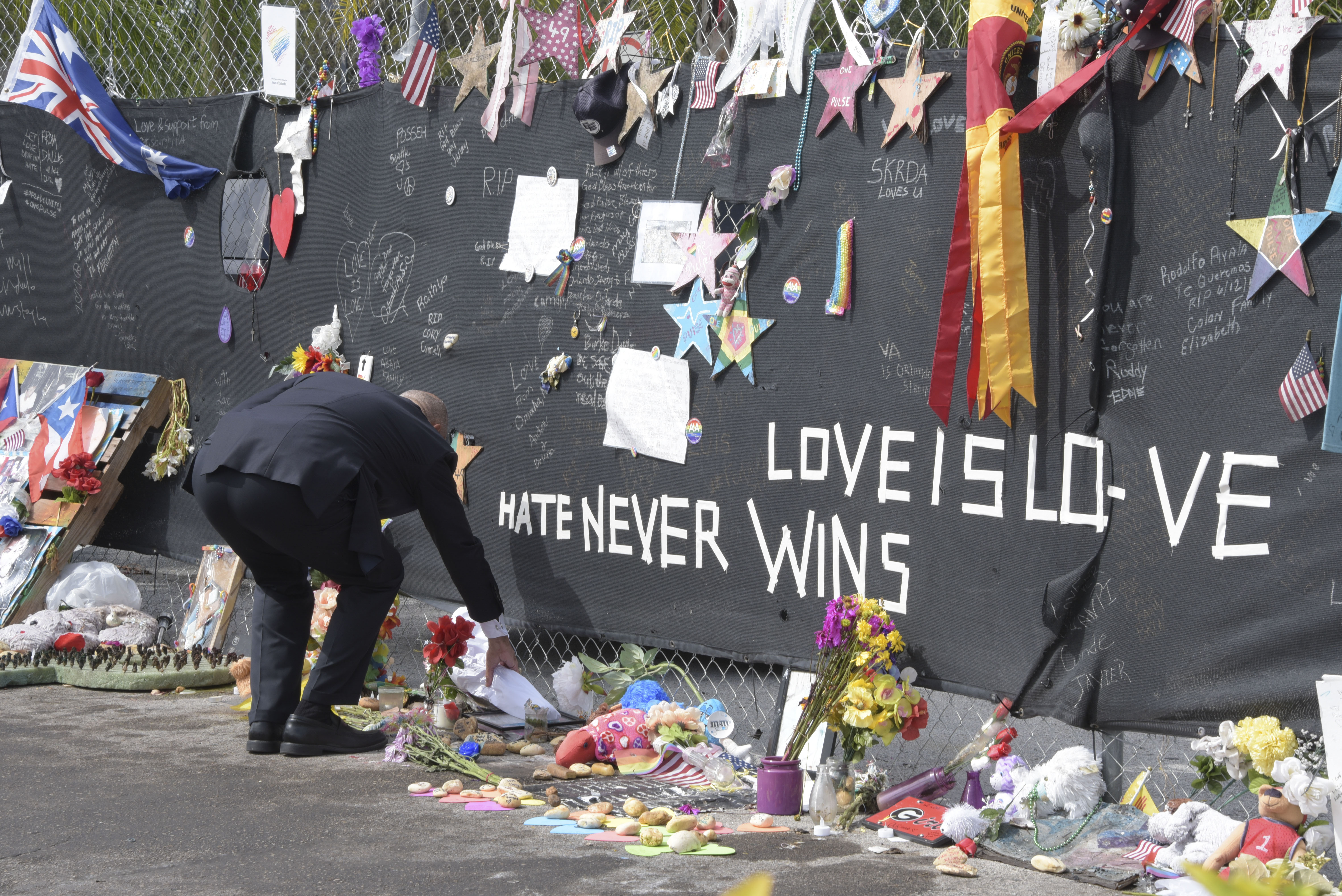 ORLANDO - Secretary of Homeland Security Jeh Johnson visits Pulse Nightclub on the three-month anniversary of the shooting which left 49 people dead in Orlando, Sept. 12, 2016. Secretary Johnson viewed the inside of the nightclub before laying flowers at a makeshift memorial outside of the club where he spoke to a chaplain there who had assisted those impacted by the shooting. Official DHS photo by Jetta Disco.